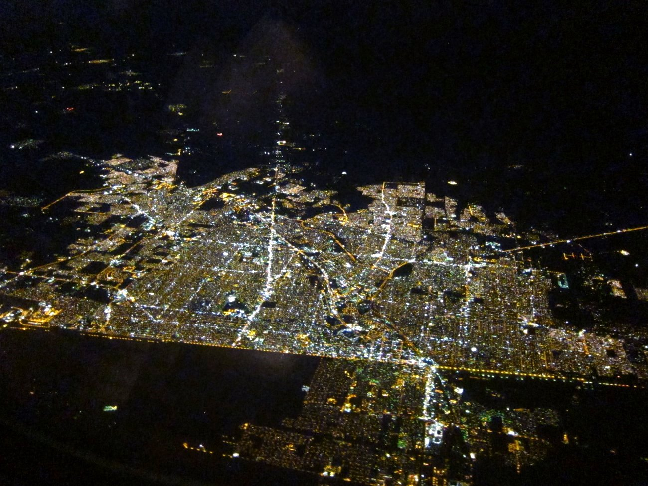 Mexicali metropolitan area showing the sister cities of Mexicali and Calexico. Calexico is in the foreground.